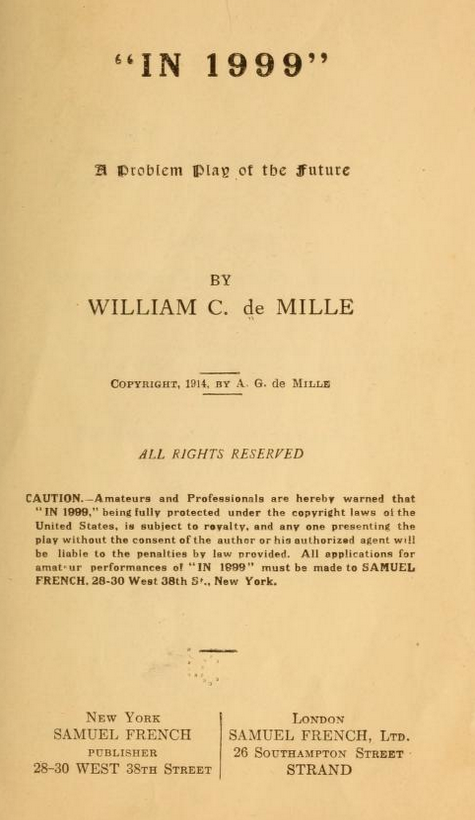 Cover page of 1914 pamphlet of one-act play "In 1999" first performed in 1912.